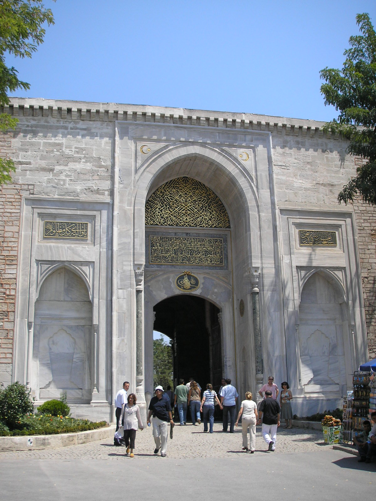 The Imperial Gate at the Topkapi Palace in Istanbul.